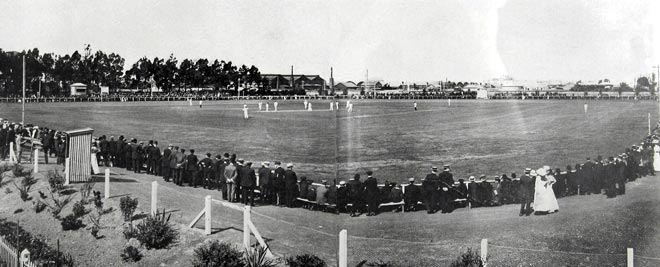 A cricket match between Otago and the touring Australian team on 5 March 1910 at Carisbrook. First published in Otago Witness, 9 March 1910.